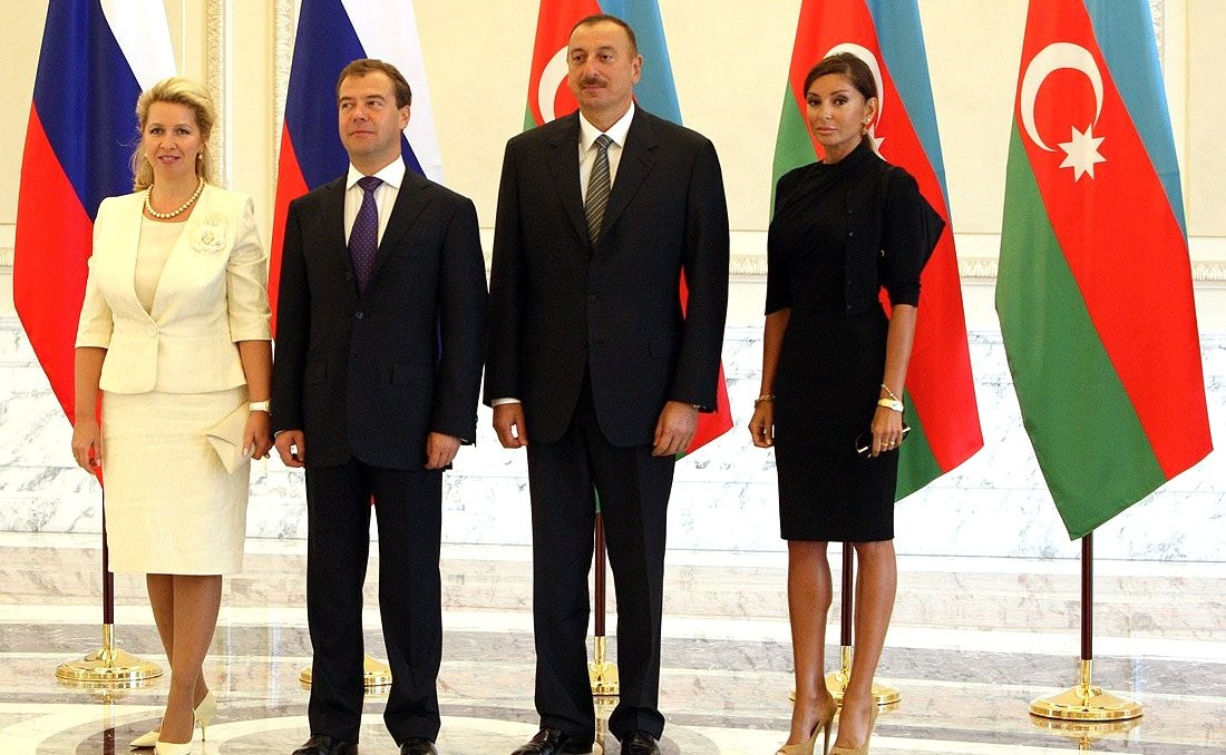 Dmitry Medvedev with his wife Svetlana and Ilham Aliyev with his wife Mehriban.